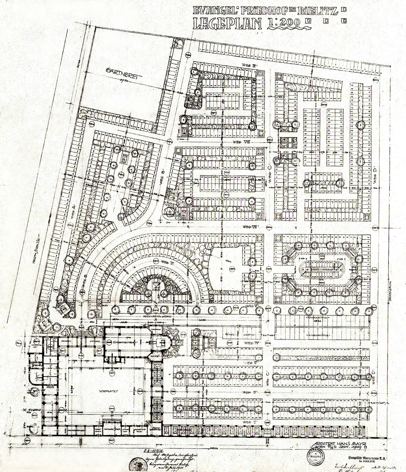 Hans Mayr project of New Evangelical Cemetery in Bielsko-Biała, Poland.